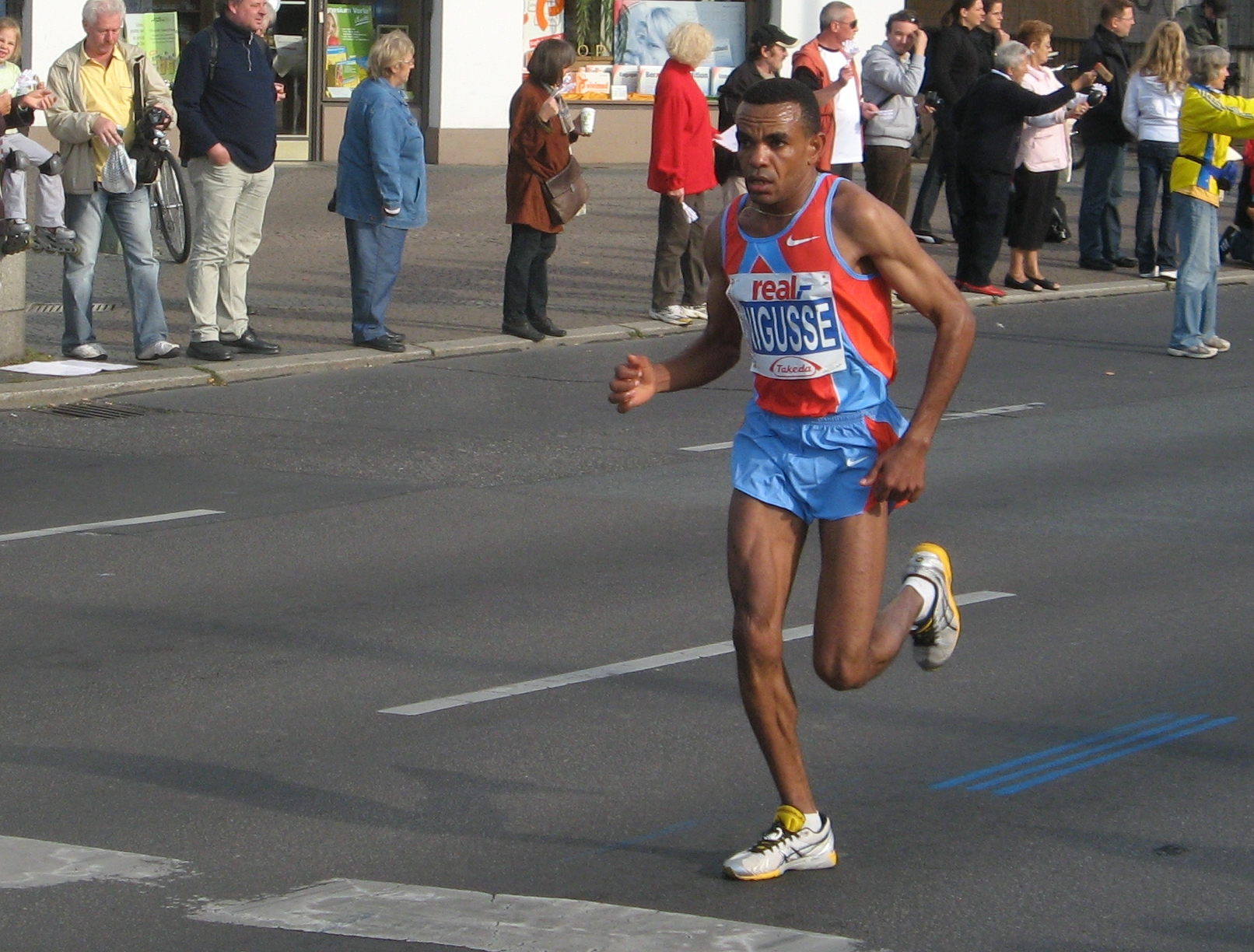 Berlin-Marathon 2008, Tola Ketema Nigusse (later finishing at #13) at Kilometer 24